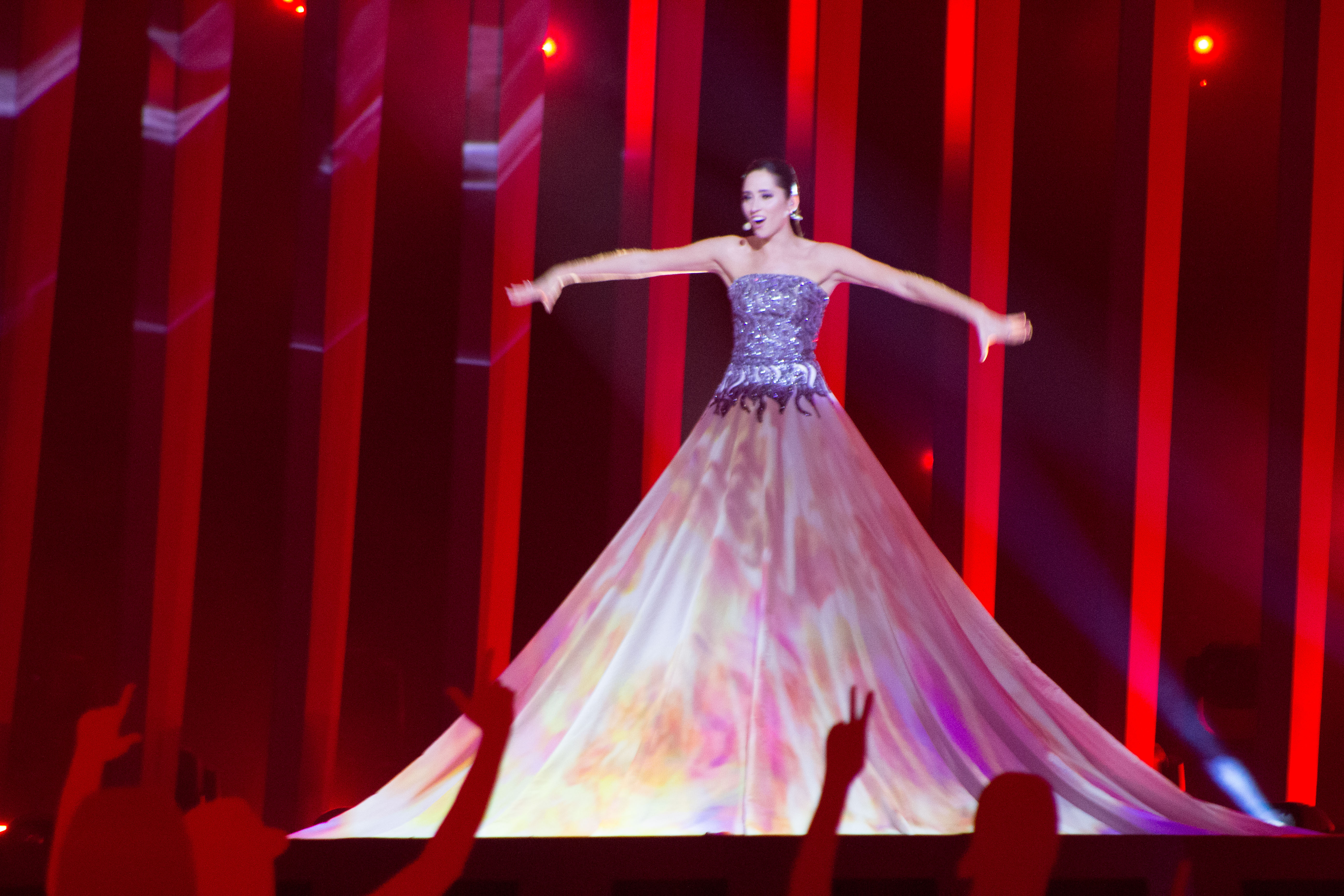 Elina Nechayeva performing at Eurovision 2018